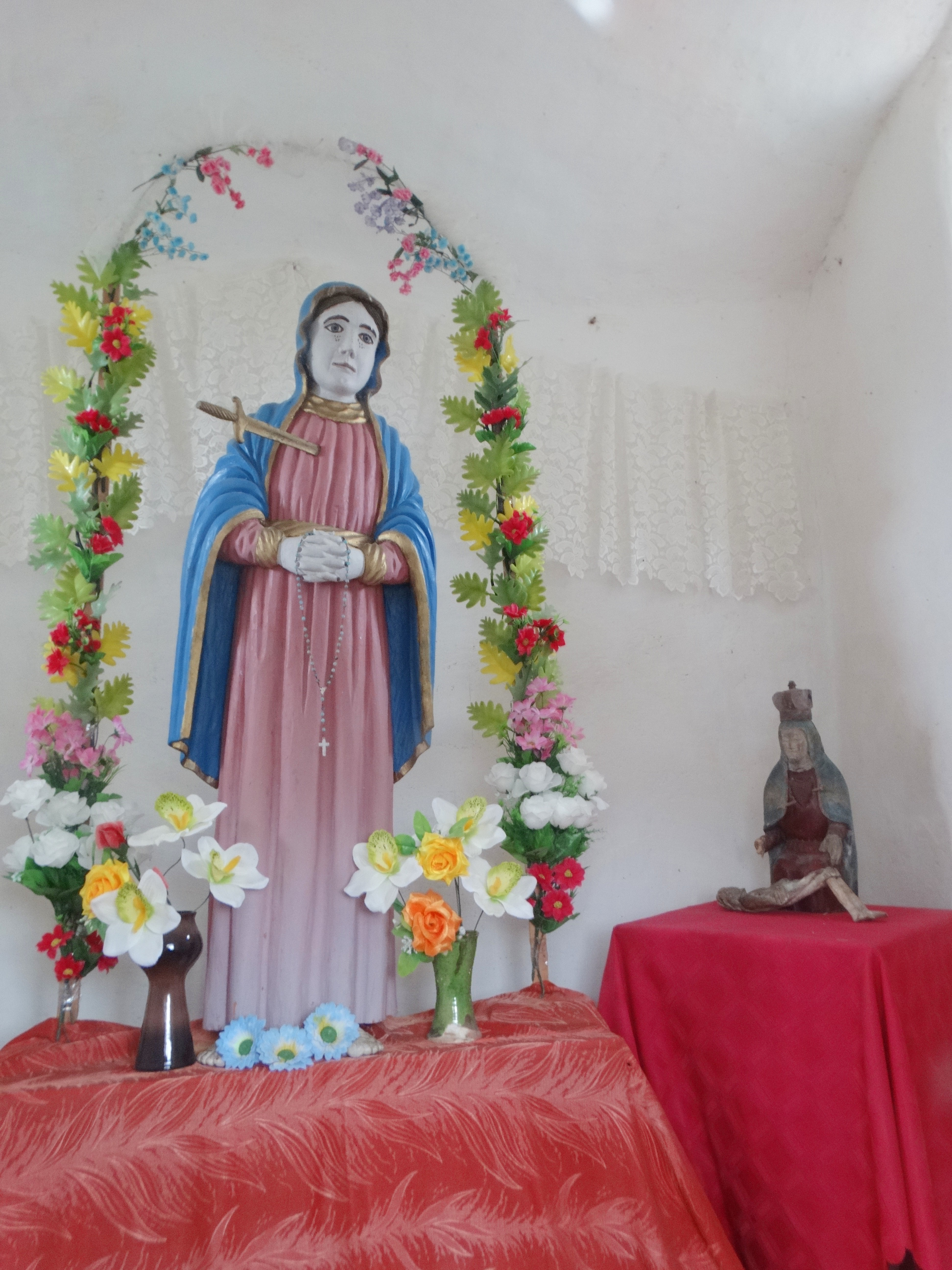 Tinteliai old cemetery chapel, Kretinga District, Lithuania